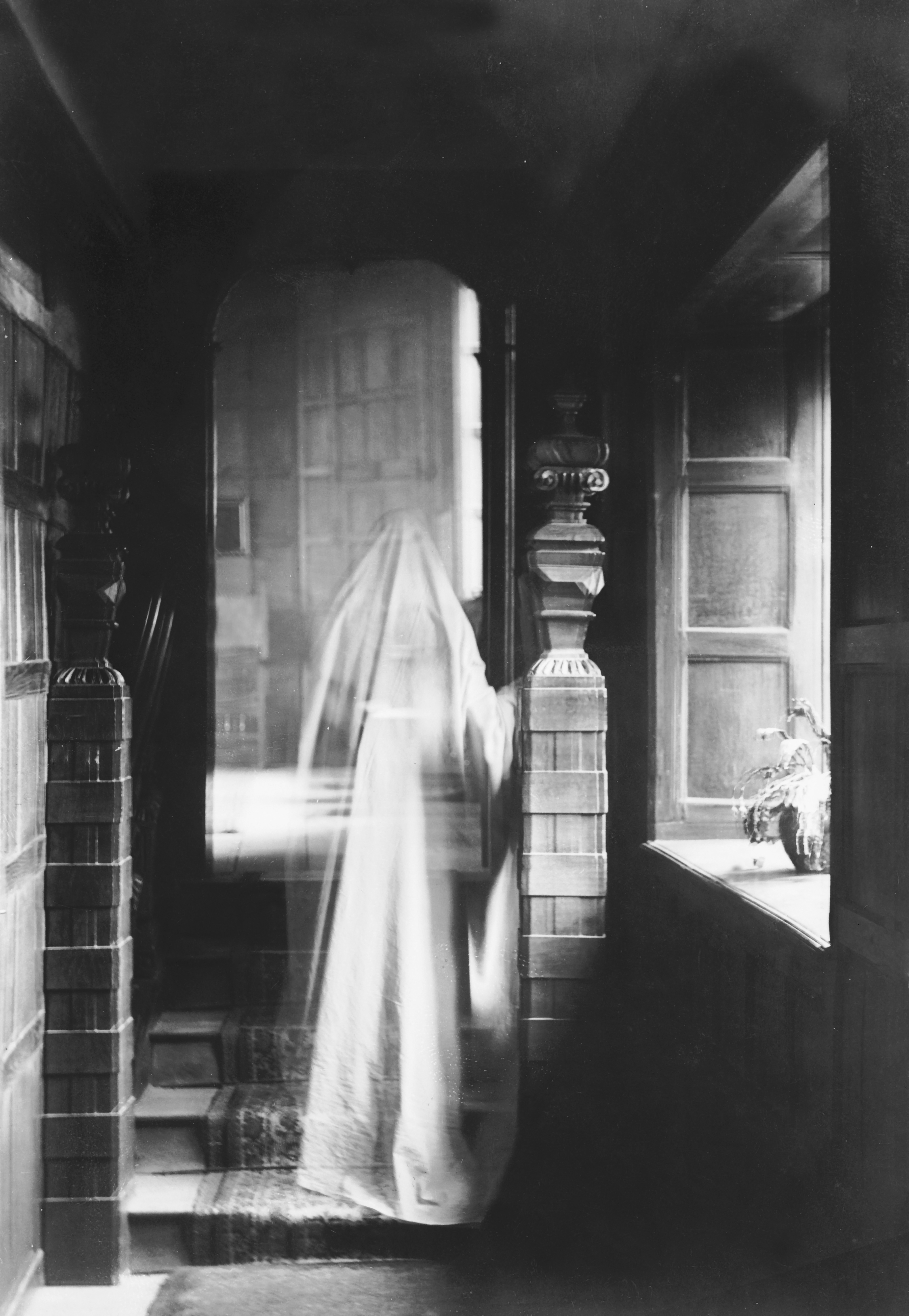 Description: Image of ghost, produced by double exposure Date: 1899 Our Catalogue Reference: COPY 1/439 This image is from the collections of The National Archives. Feel free to share it within the spirit of the Commons. For high quality reproductions of this image, visit our image library